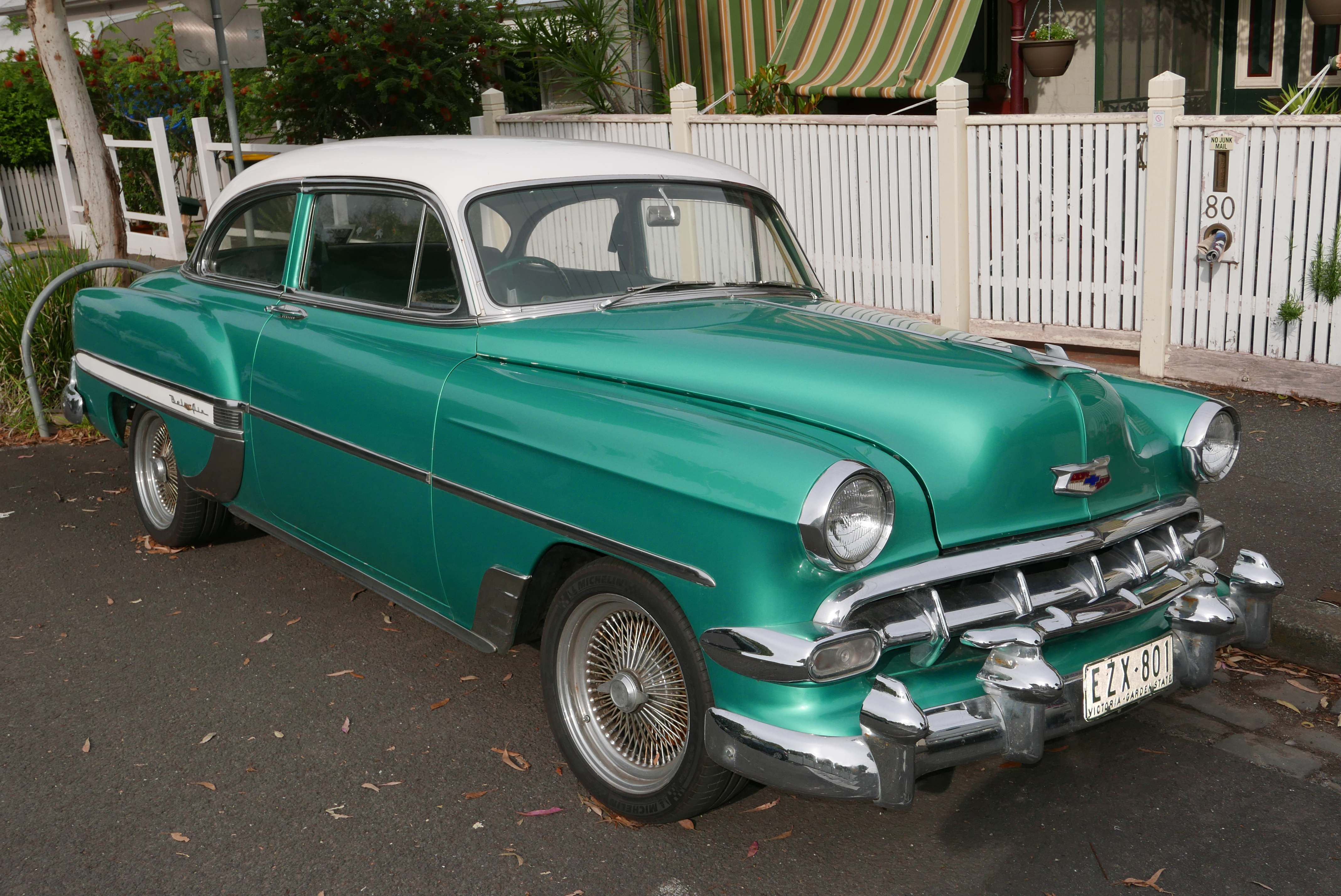 1954 Chevrolet Bel Air coupe. Photographed in Flemington, Victoria, Australia. Vehicle registration enquiry results Jurisdiction Victoria Registration EZX801 Chassis code C54S040441 Engine code 0245319F54Z Compliance date Not available Year of manufacture 1954